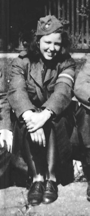 Photograph of the Danish resistance member Hedda Lundh (1921-2012)